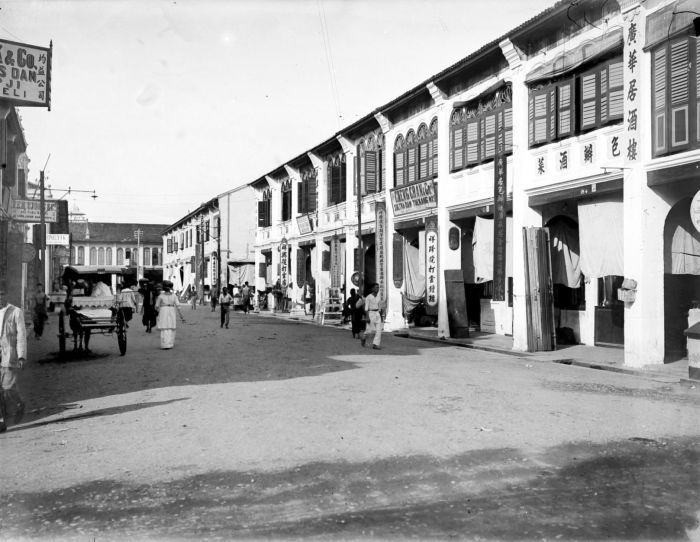 Street with Chinese shops